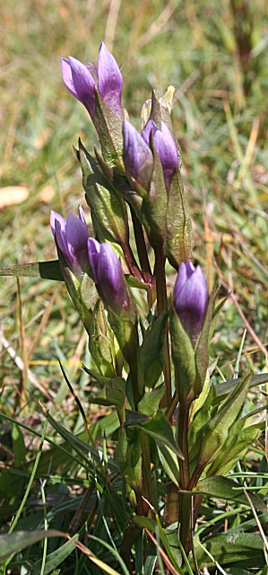 Autumn Gentian (Gentianella amarella) Also known as Felwort. An infusion of its powdered roots was used to treat various ailments including worms, kidney stones and liver disease. Several preparations are still in use today for anorexia, indigestion and jaundice.